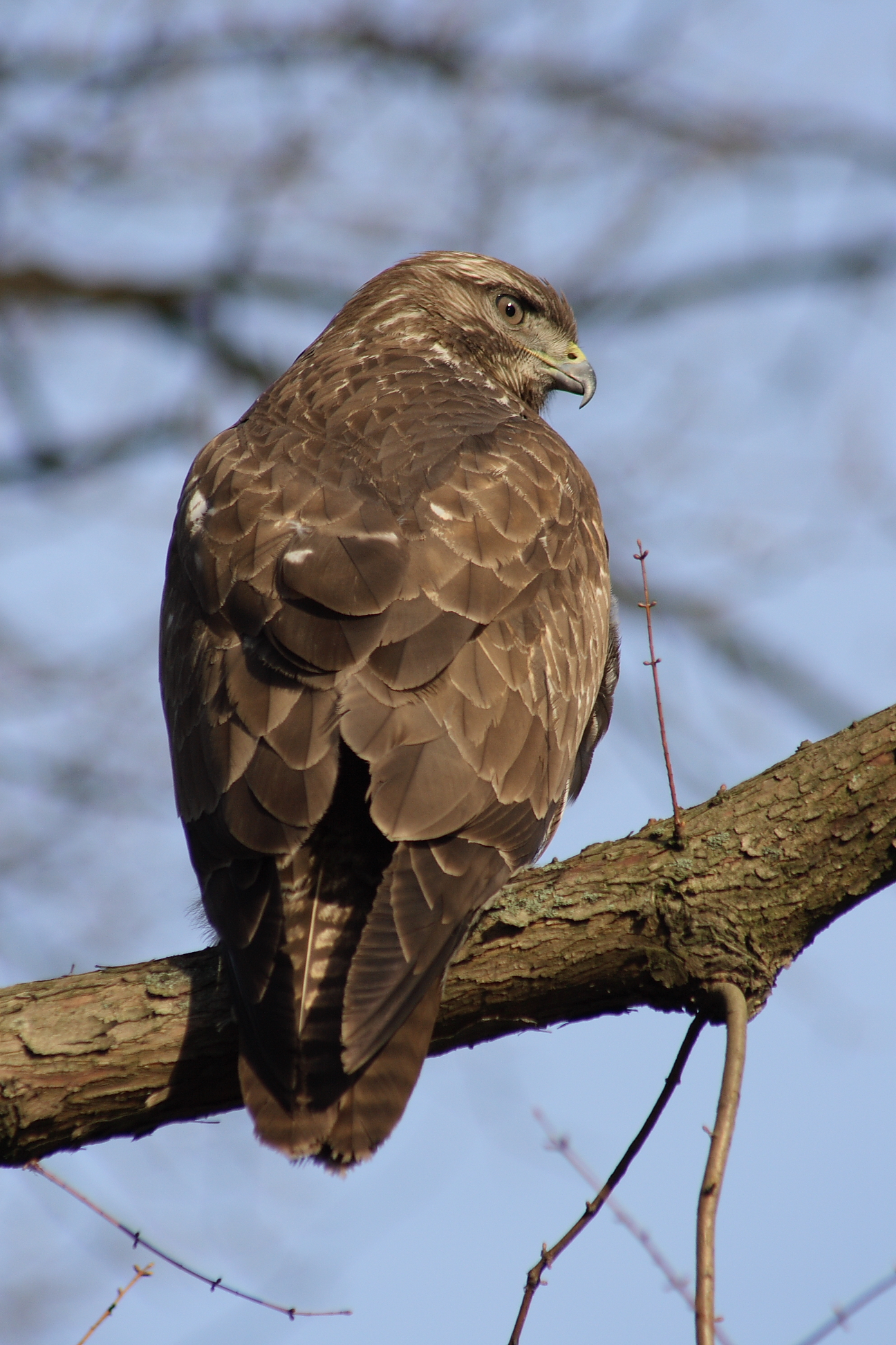 Young Common Buzzard (Buteo buteo) in its second calendar year. Municipal park Planten un Blomen, Hamburg, Germany.